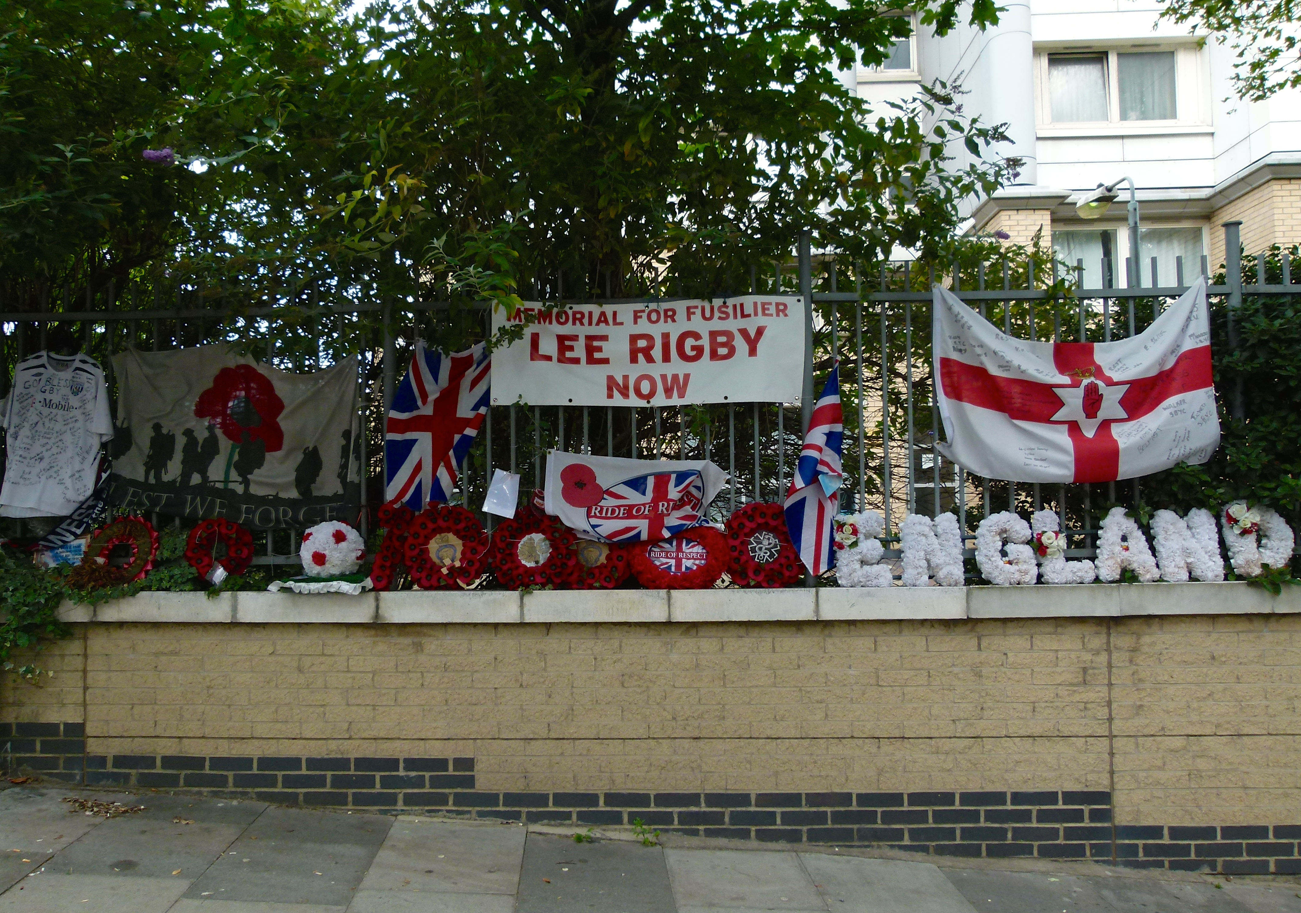 View of Lee Rigby memorial in Wellington Street, Woolwich, South East London.